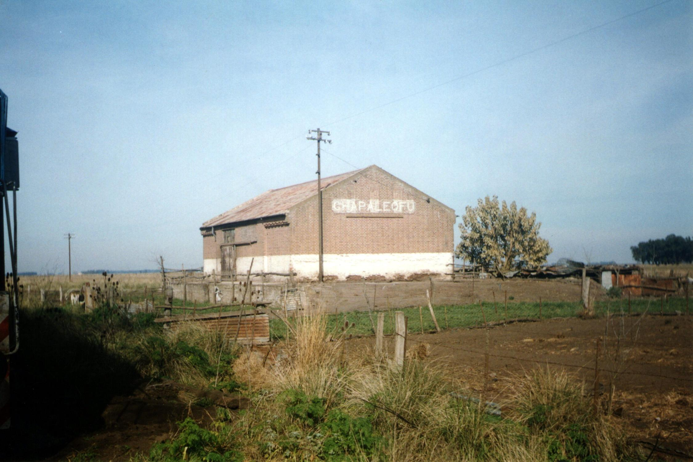 Warehouse in Chapaleufú train station. Buenos Aires province.